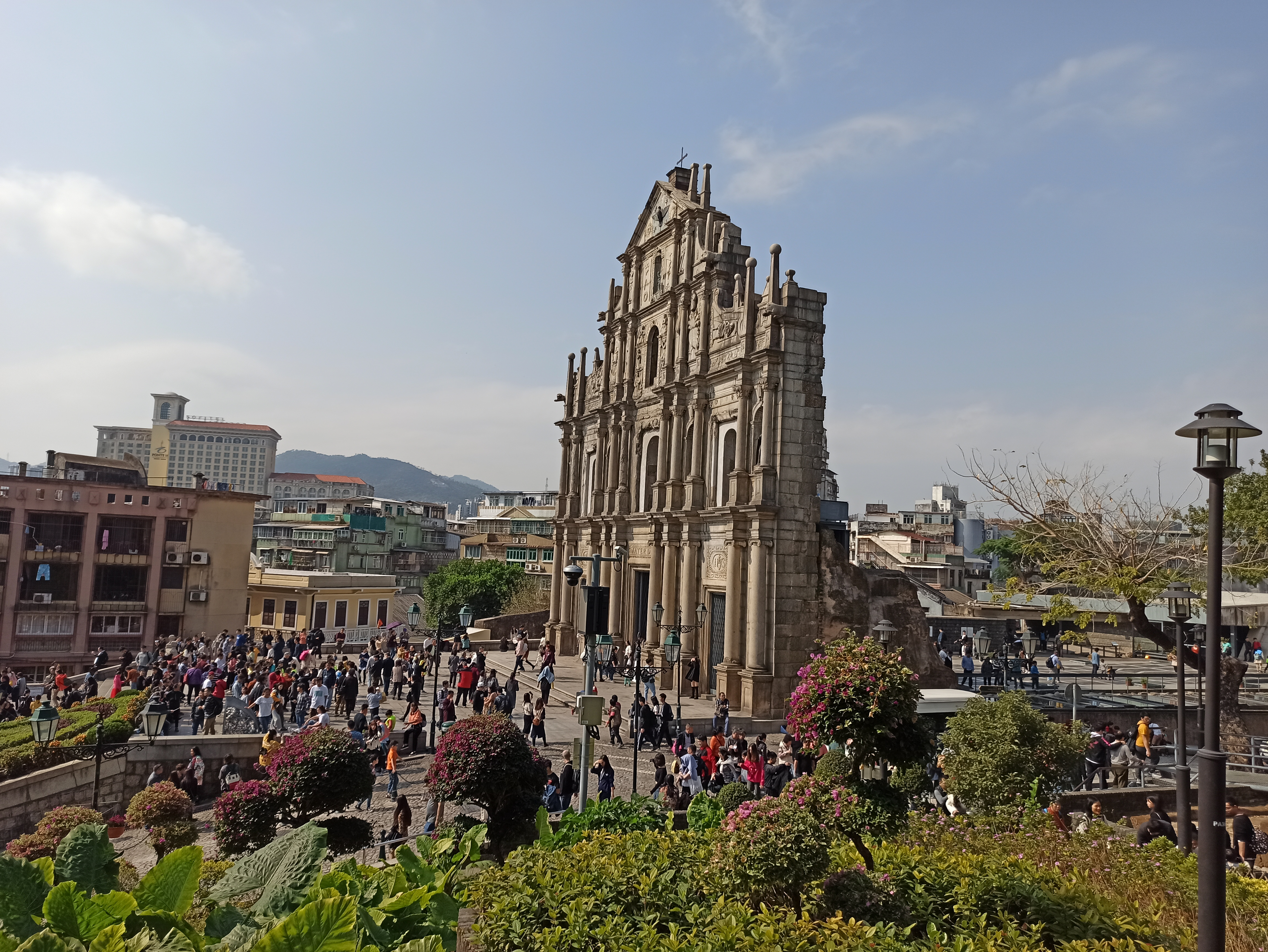 View of the Ruins of Saint Paul's